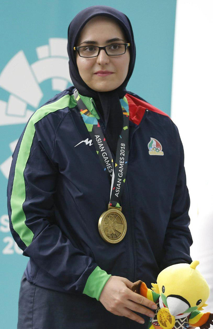 Shooting at the 2018 Asian Games – Women's 50 metre rifle three positions